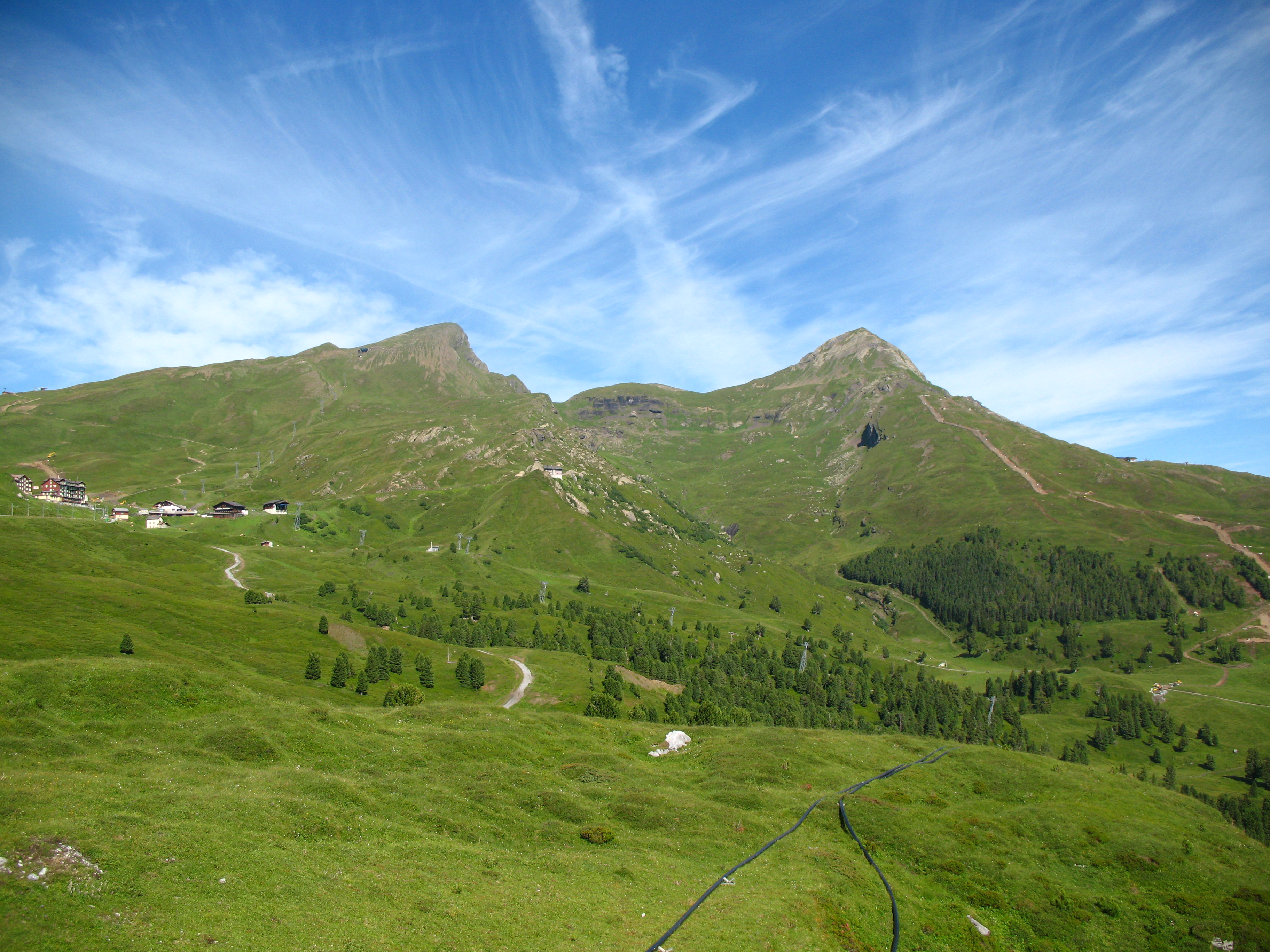 View from the Wengernalpbahn, Grindelwald-Kleine Scheidegg, Switzerland: Lauberhorn (2394 m) to the left, Kleine Scheidegg (2061 m) below, Tschuggen (2521 m) to the right